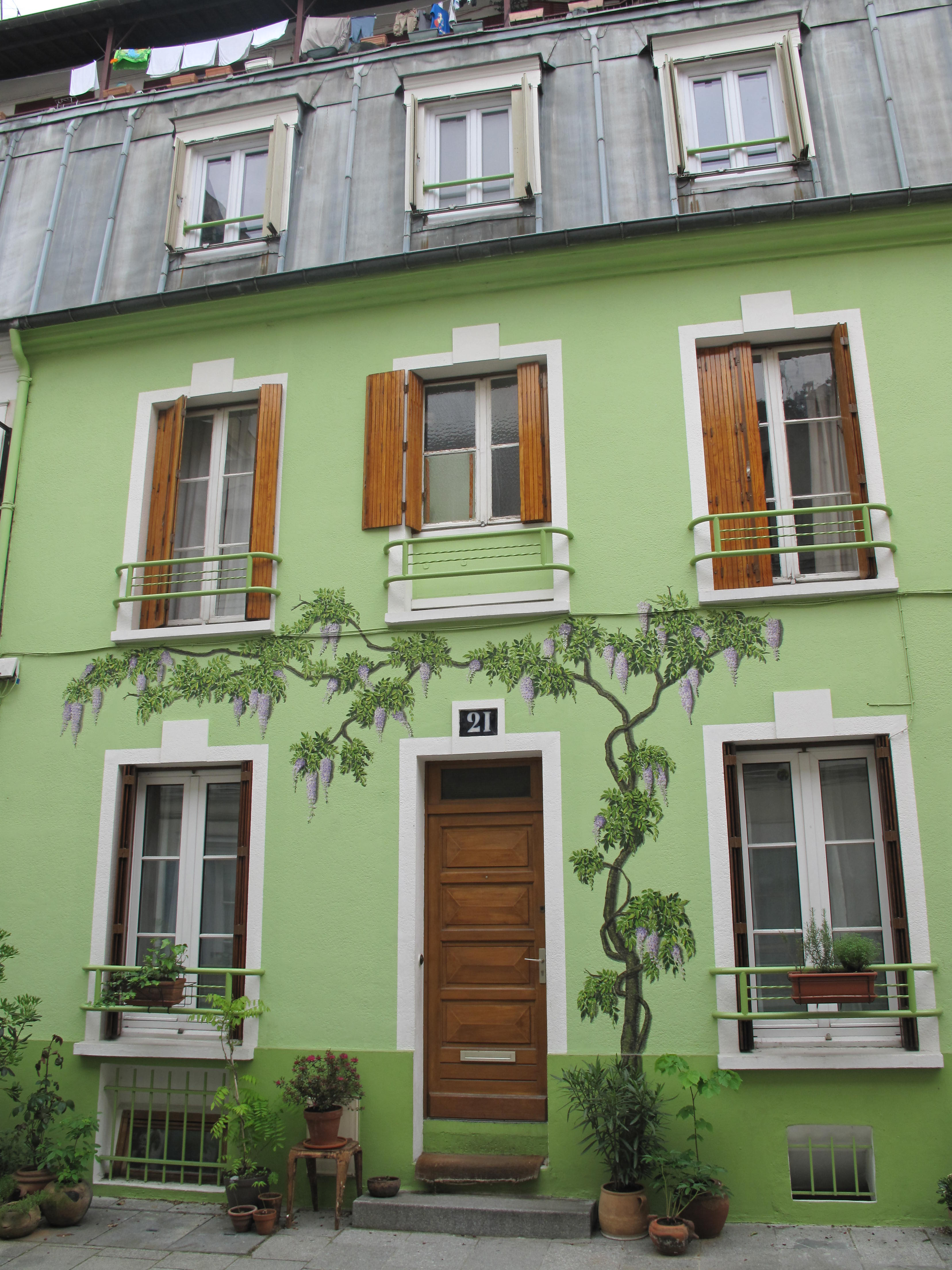 Green house with a wisteria in trompe-l'oeil at the 21 rue Crémieux : Paris 12th arr.